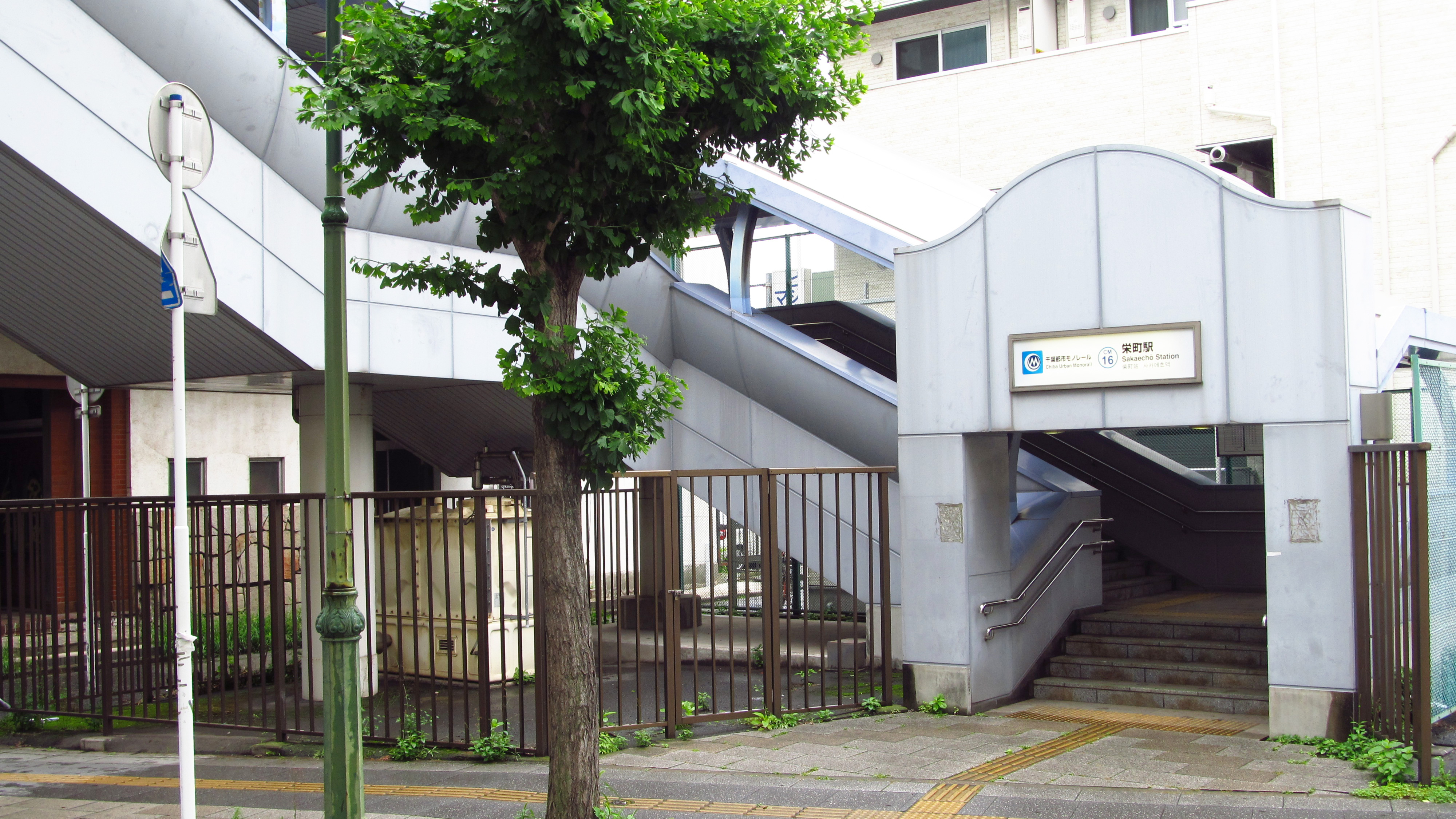 The no.1 entrance to Sakaechō Station on on the Chiba Urban Monorail in Chiba city, Chiba prefecture, Japan